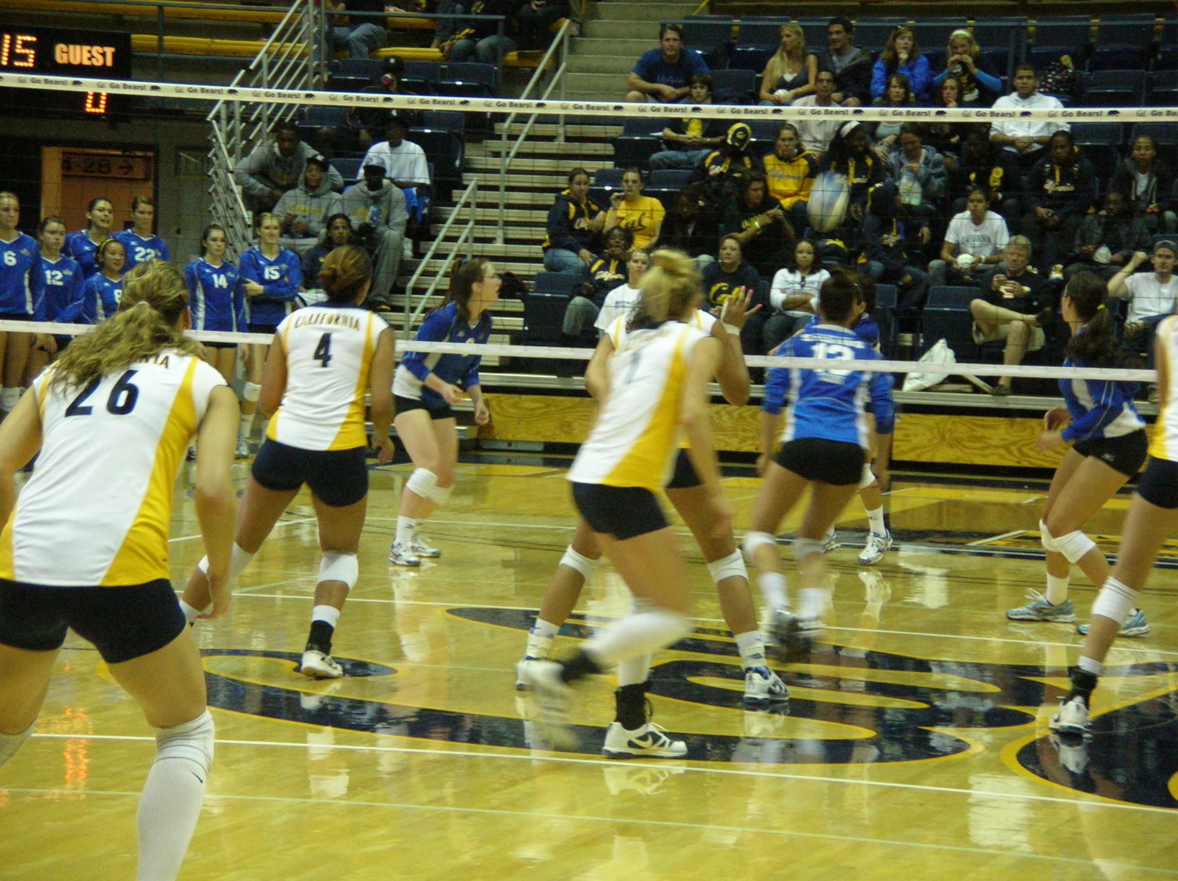 A women's volleyball match between the San Jose State Spartans and California Golden Bears in Berkeley. The Golden Bears won 3 sets to 1.